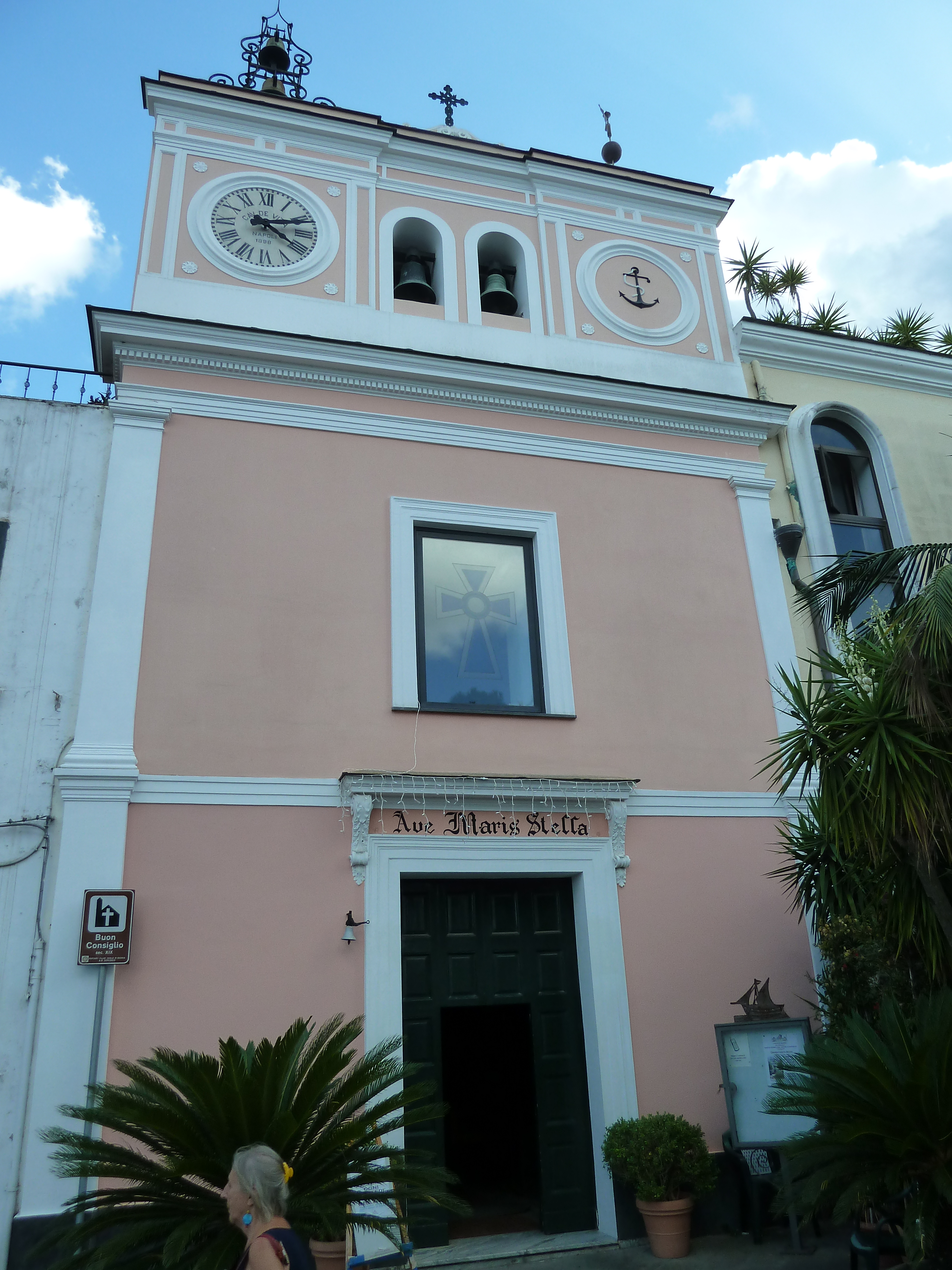 casamicciola church